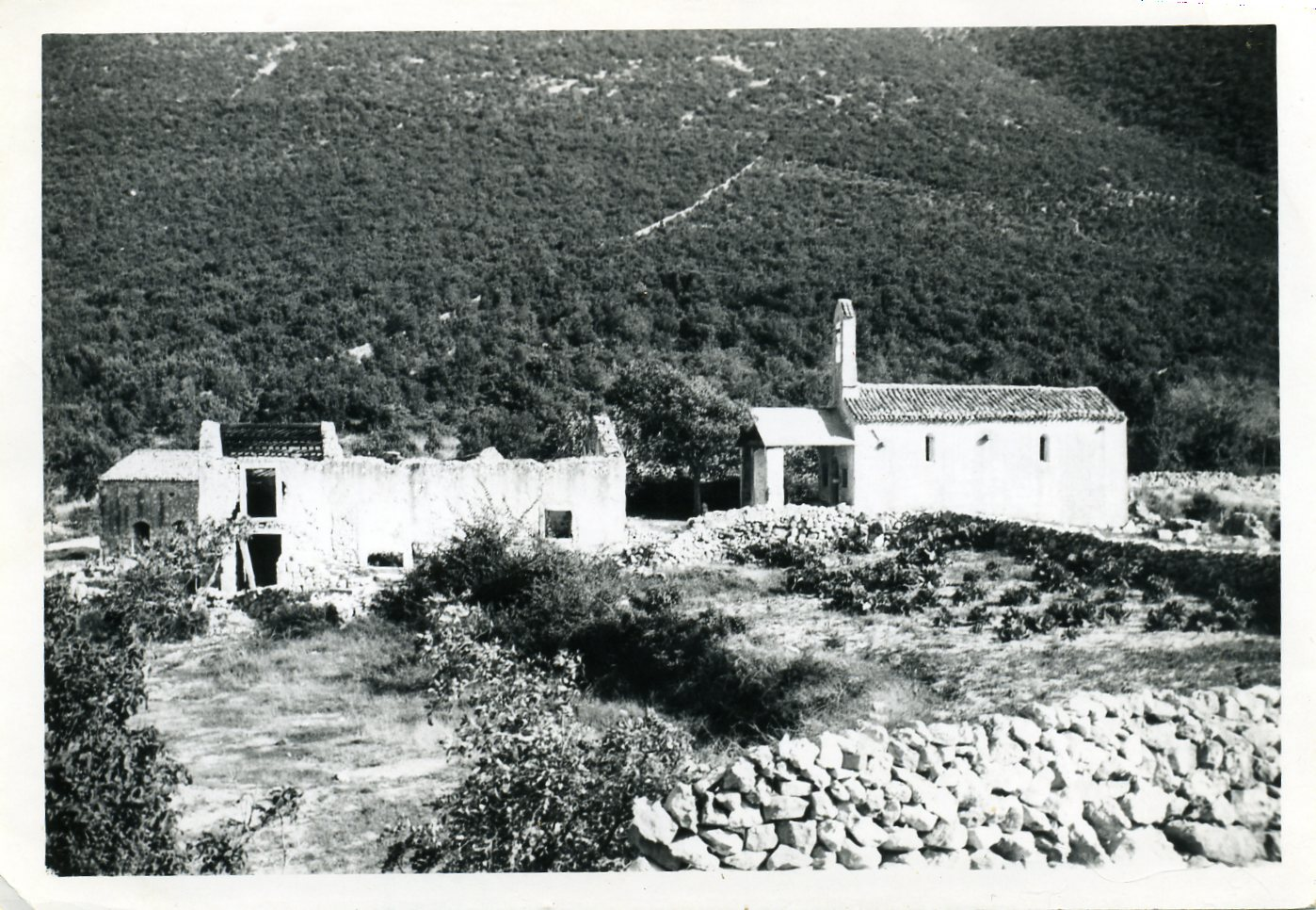 14th century Country chapel of St. John the Baptist and the Abbey in Brovinje, Istria. Bell tower without bell; Altar of cement, pictures on wall of St.Anthony of Padua and the Madonna